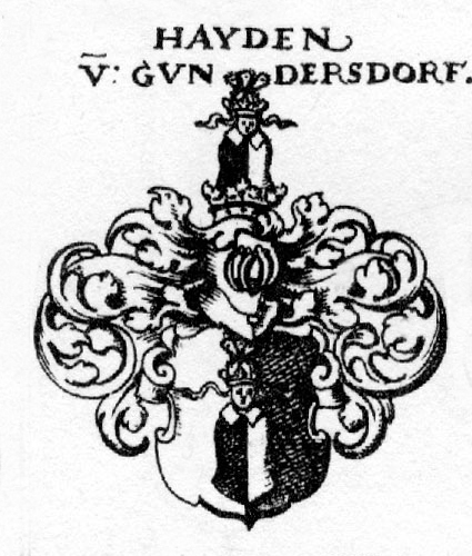 Coat of Arms of Haiden zu Gundersdorf, Austria